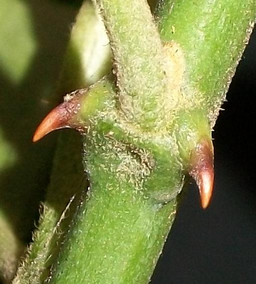 Thorns of Capparis tomentosa; 8 mm between thorn tips. Plant growing as straggling climber in coastal bush in Amanzimtoti, South Africa